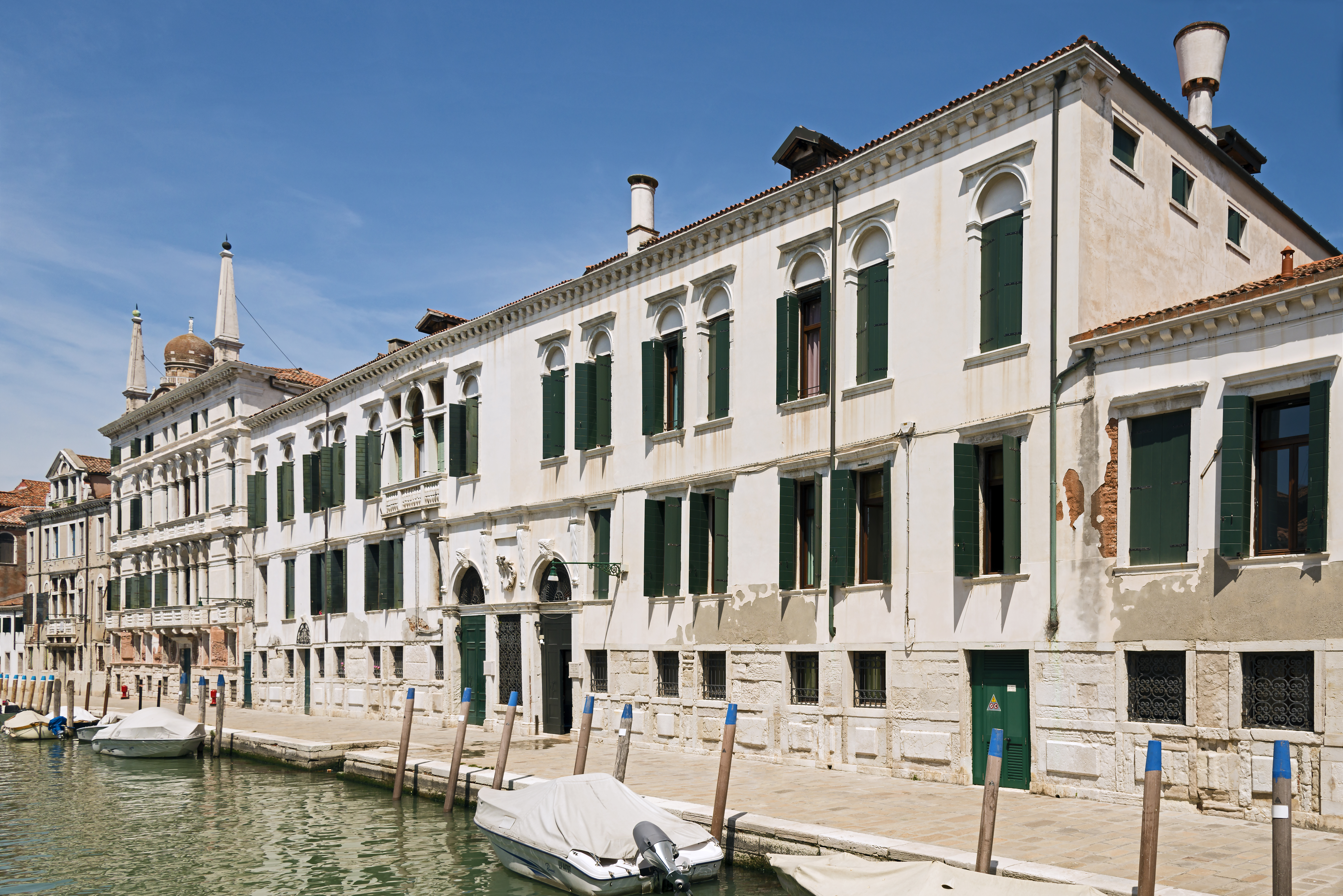 Palace Contarini dal Zaffo in Venice - The Palace is located in the district of Cannaregio, between Madonna dell'Orto and Sacca della Misericordia. Built in the sixteenth century by the family Contarini Dal Zaffo, it now houses the Piccola Casa della Divina Provvidenza. Facade on rio della Madonna dell'Orto .